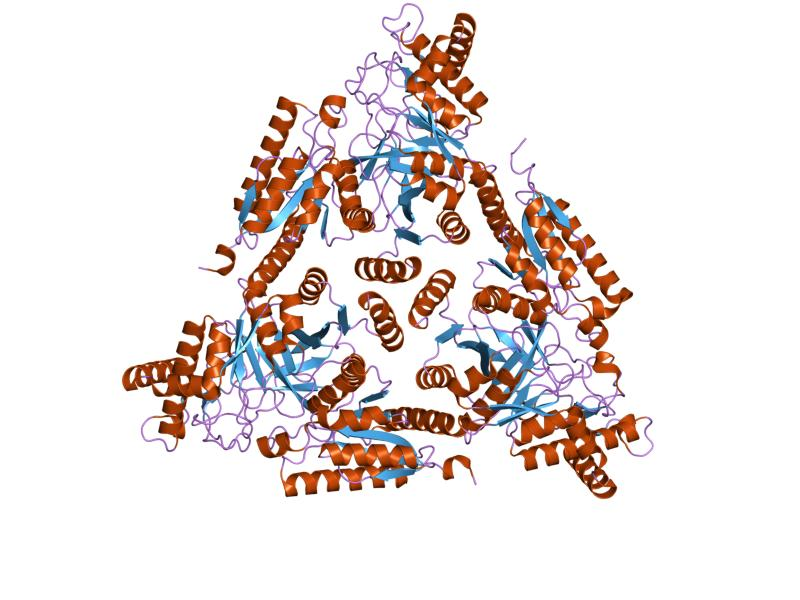 Cartoon representation of the molecular structure of protein registered with 2ajt code.